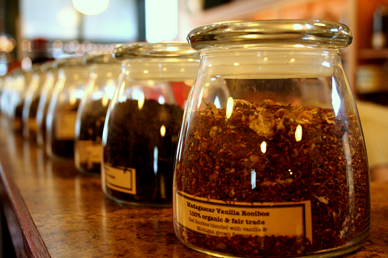 I was actually sitting in the Sparrows when I saw that they linked to my photo. Very cool. organictea.co/buy-organic-herbal-tea-bags-and-loose-leaf-...